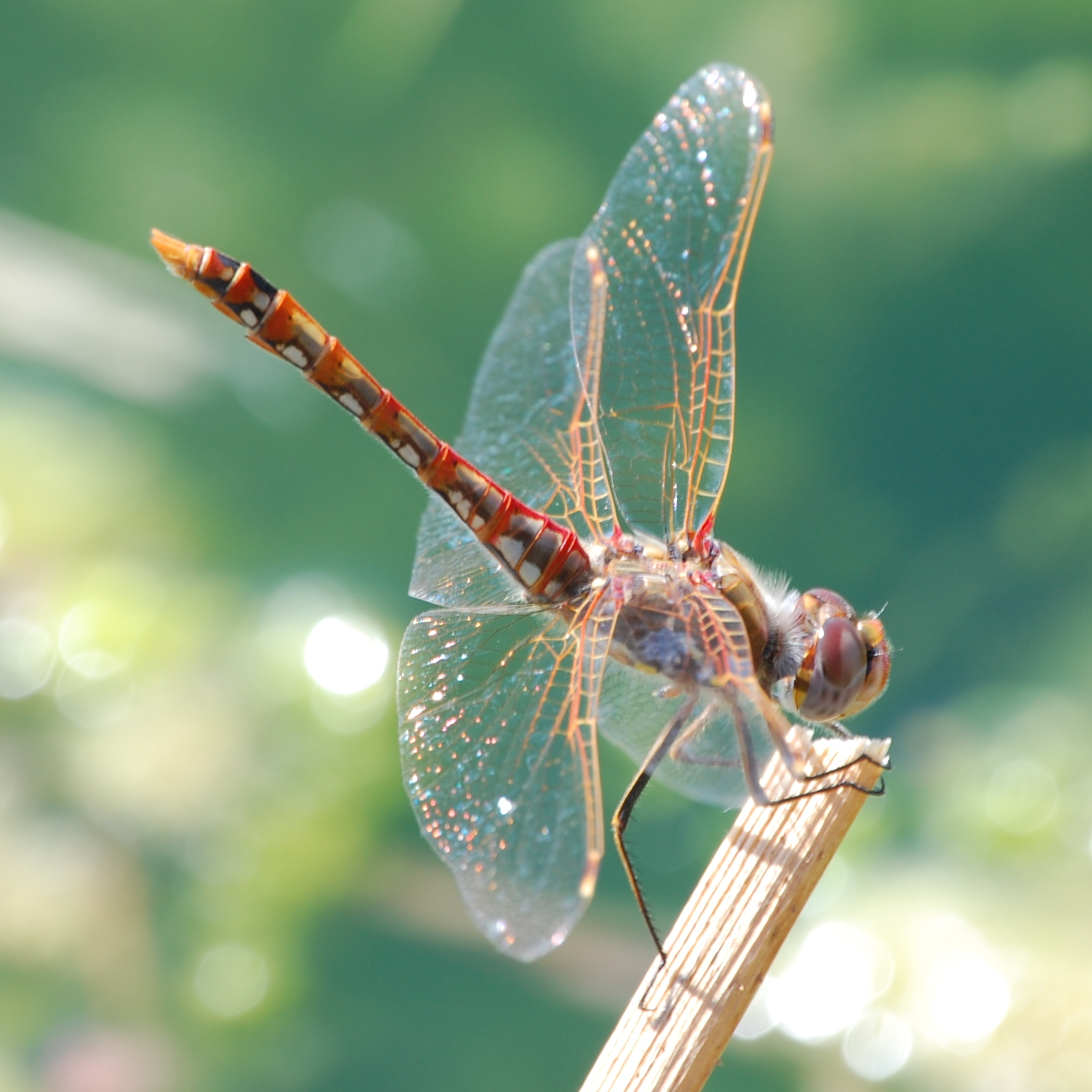 Variegated Meadowhawk. Male in obelisk position